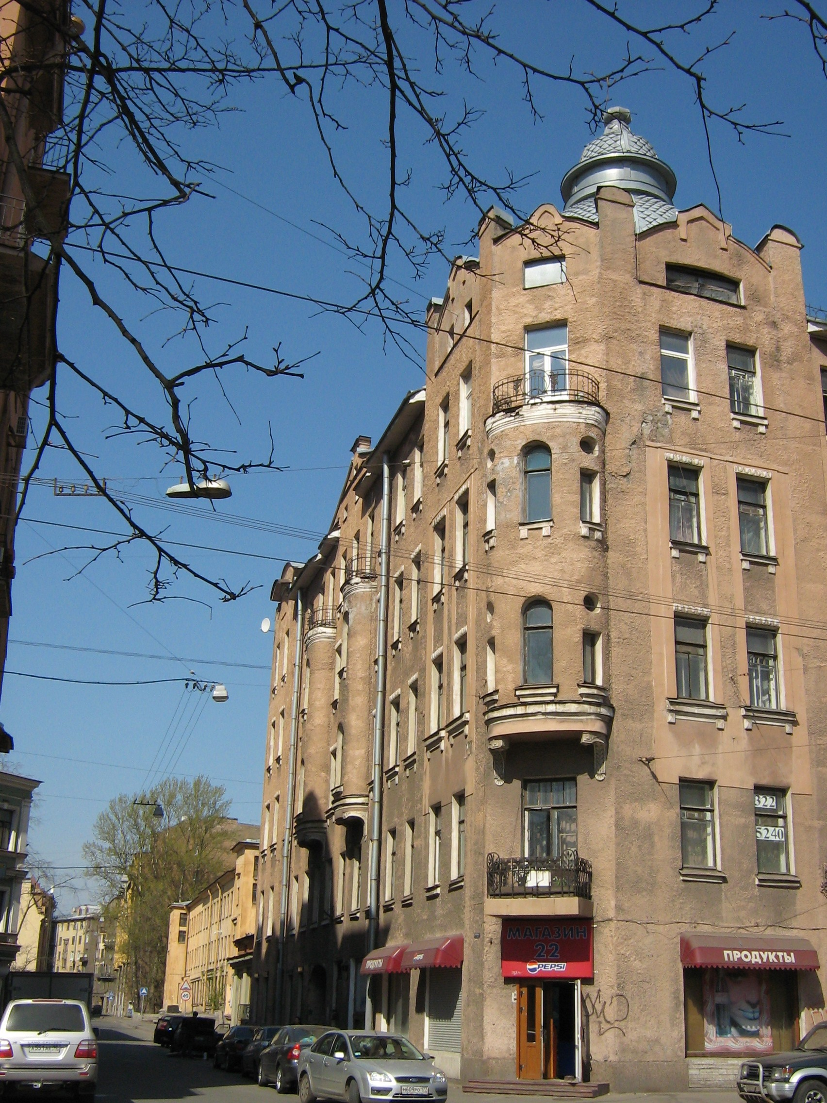 1, Tatarsky Pereulok (Tatar Lane), corner of Kronverksky Prospekt, in Saint Petersburg, Russia. House of Pospelov, art nouveau style, built by architect Pavel Mulchanov in 1909